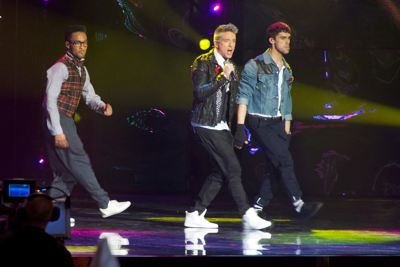 Danny Saucedo at dress rehersal in Luleå 4 February 2011.